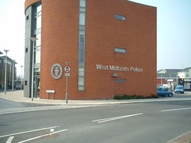 Castle Vale Police Station Castle Vale has been subjected to extensive modernisation and improvement. The Police Station is a clear example of this.